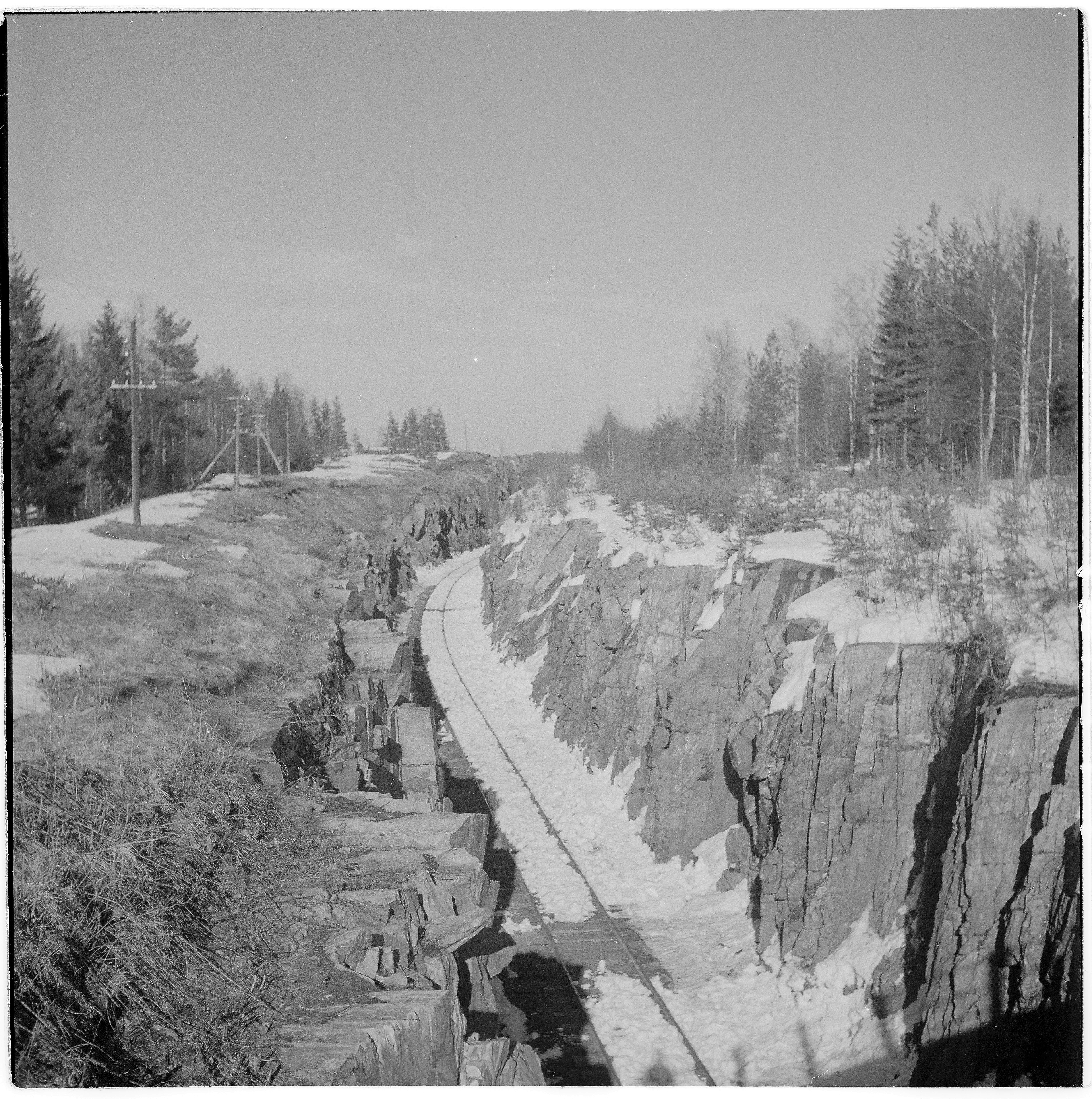 Vlimen rautatieleikkaus maantien kohdalla. Tss olivat Laatokan koillispuolella olleen panssarijunan suoja asemat.